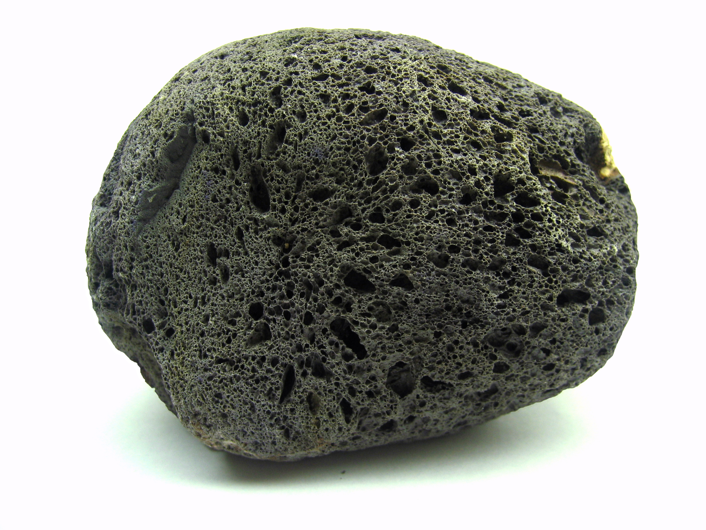 Macro of Scoria, about 4 inches (10 cm) in size.